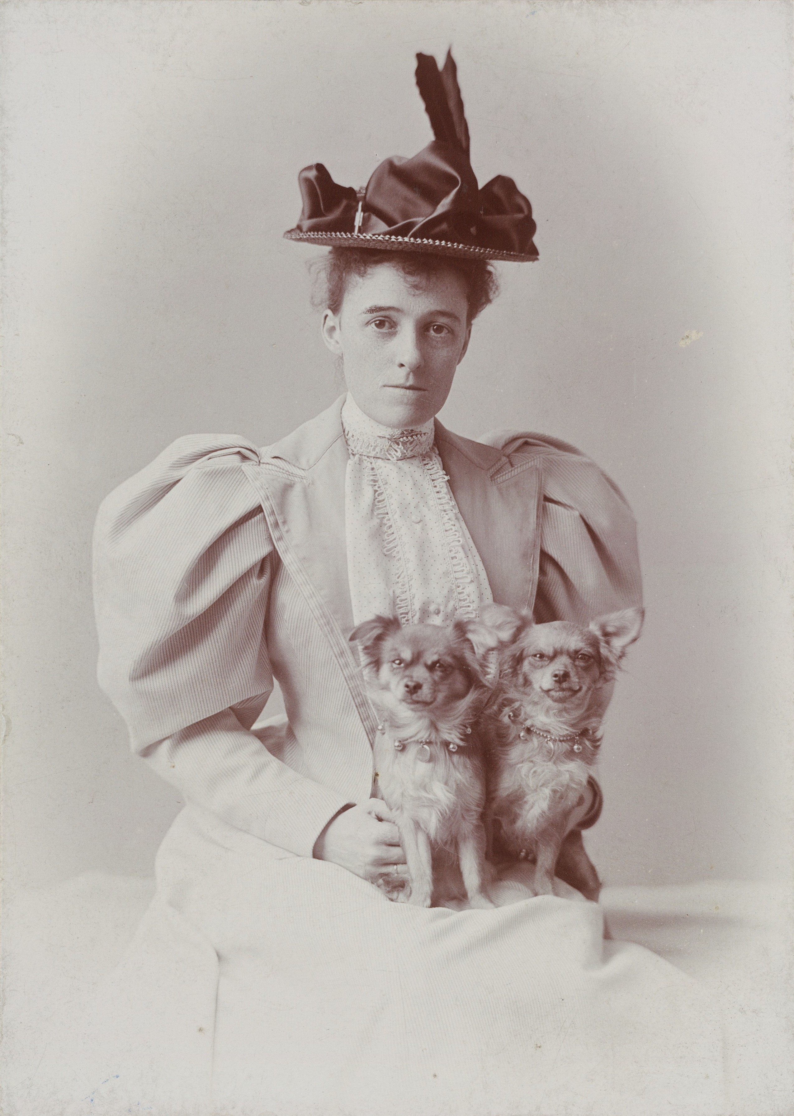 Photograph of writer Edith Wharton, taken by E. F. Cooper, at Newport, Rhode Island. Cabinet photograph. Courtesy of the Beinecke Rare Book & Manuscript Library, Yale University.